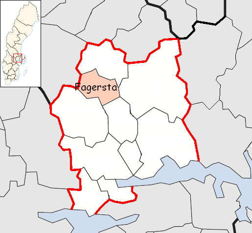 Fagersta Municipality in Västmanland County Designed by me. Mere outlines are a PD source from